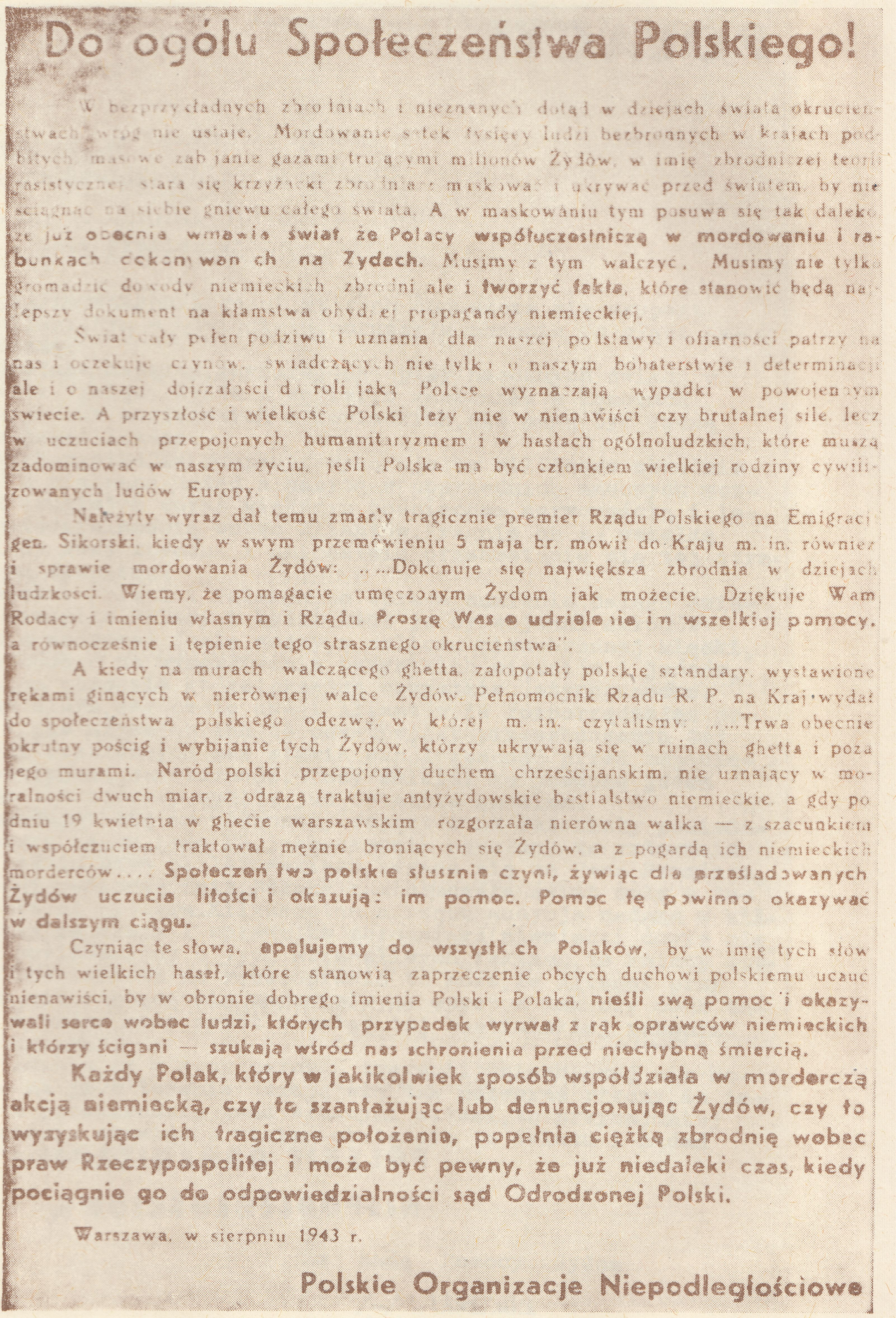 Council to Aid Jews poster 1943.